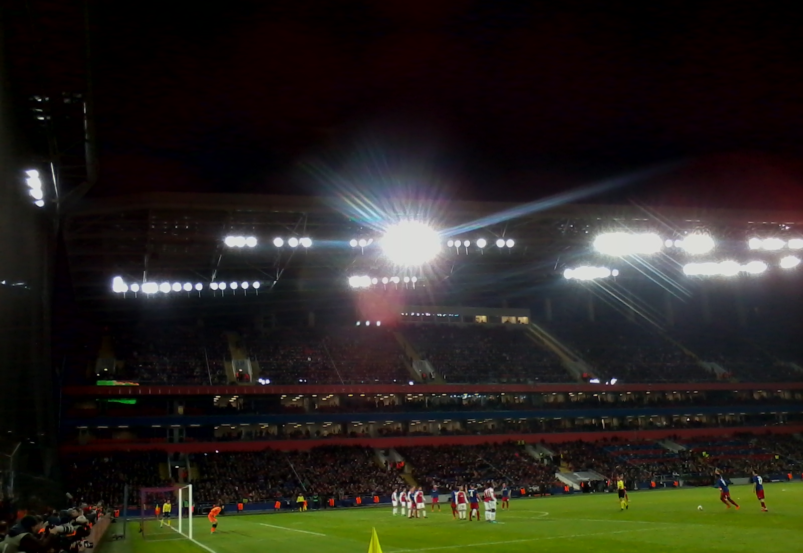 Europa League 2017-2018 - CSKA Moscow v Arsenal London, 12 April 2018